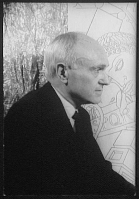 Carl Van Vechten (1880-1964)/LOC van.5a52190. Philip Johnson, Esq., April 10, 1963